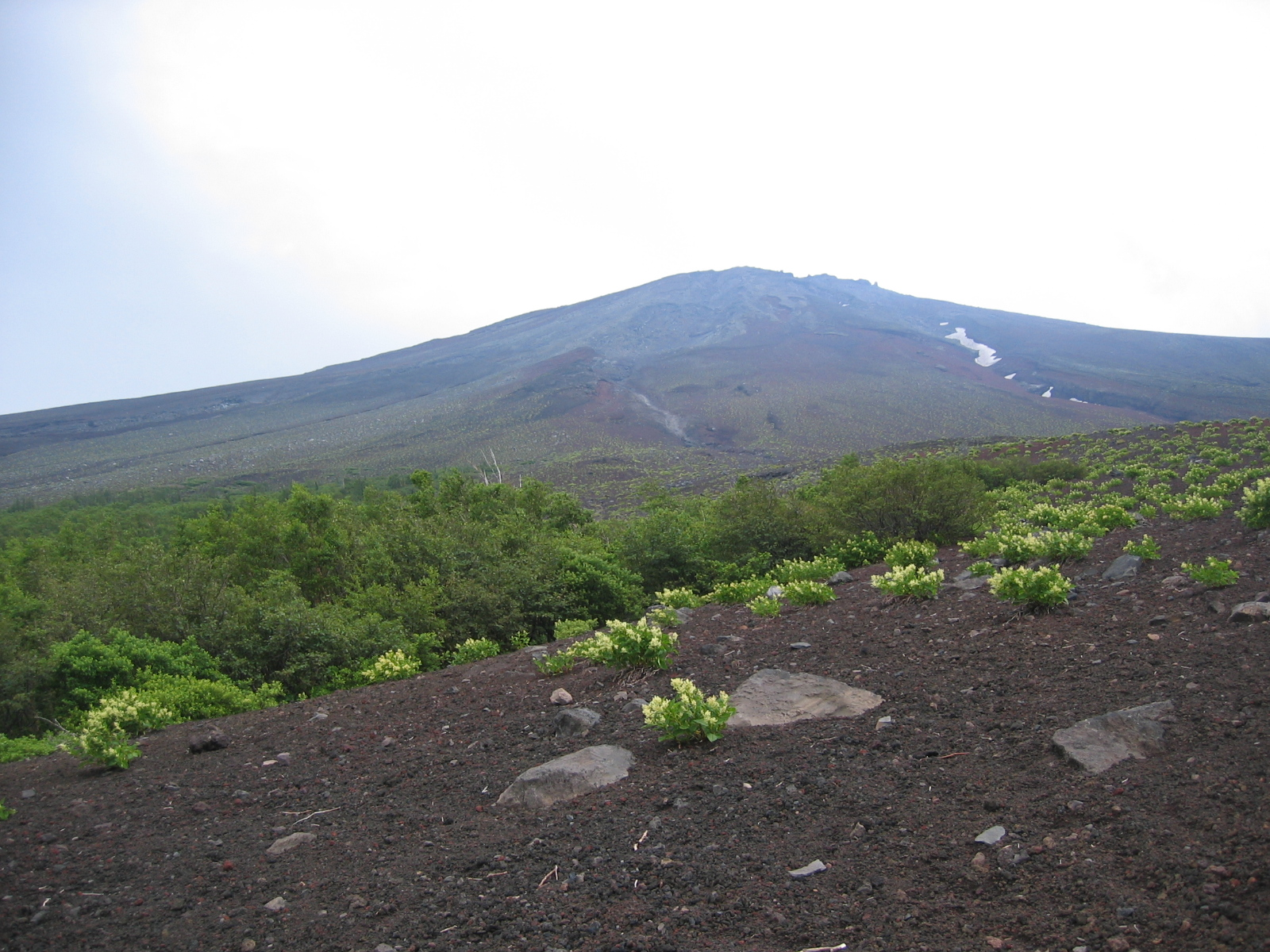 Top of Mt.Fuji, as seen from North-West side of Mt.Fuji.